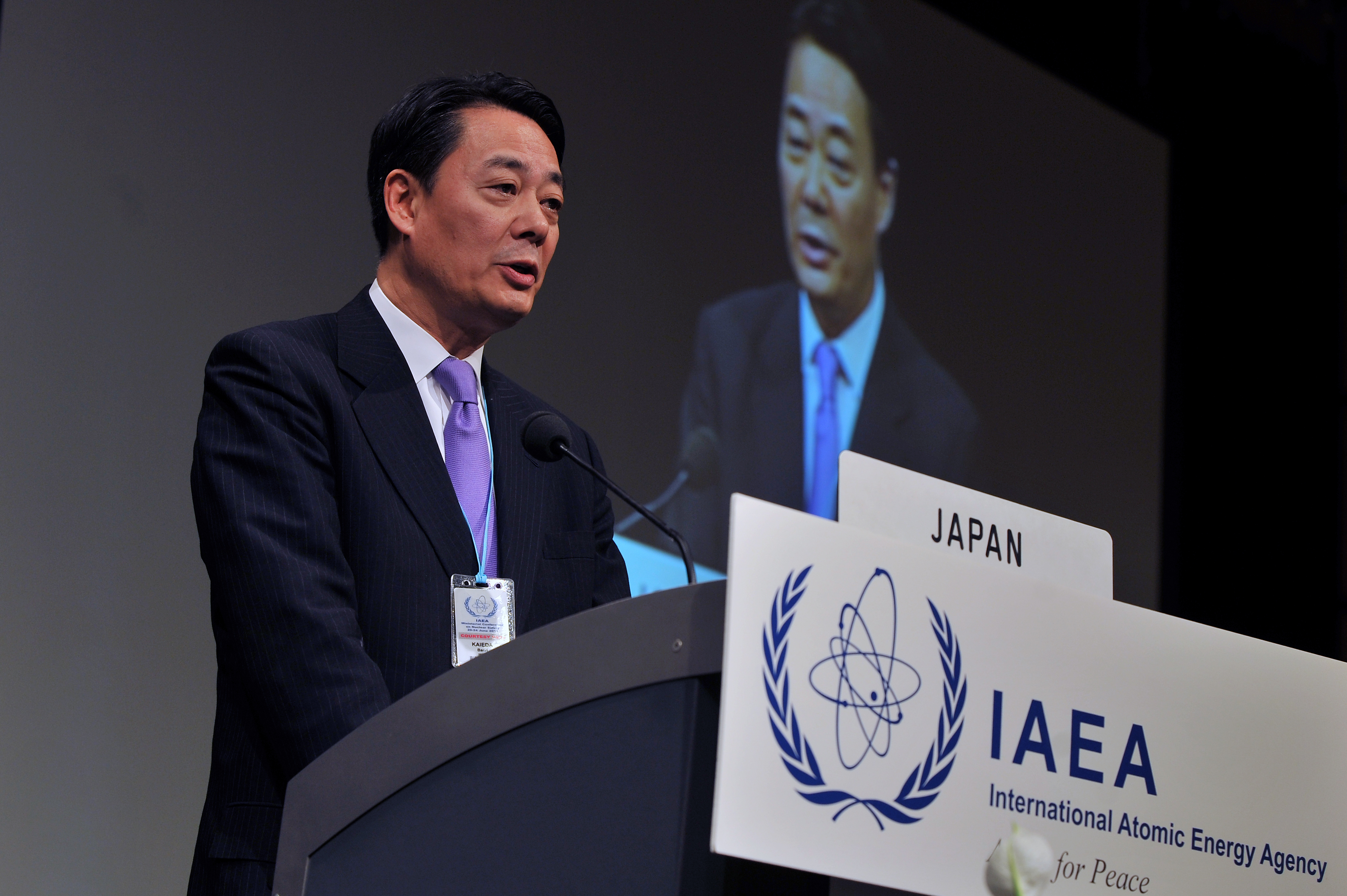 Banri Kaieda, Minister of Economy, Trade and Industry, delivered his statement at the opening of the Ministerial Conference on Nuclear Safety in Vienna City, Vienna State on June 20, 2011.